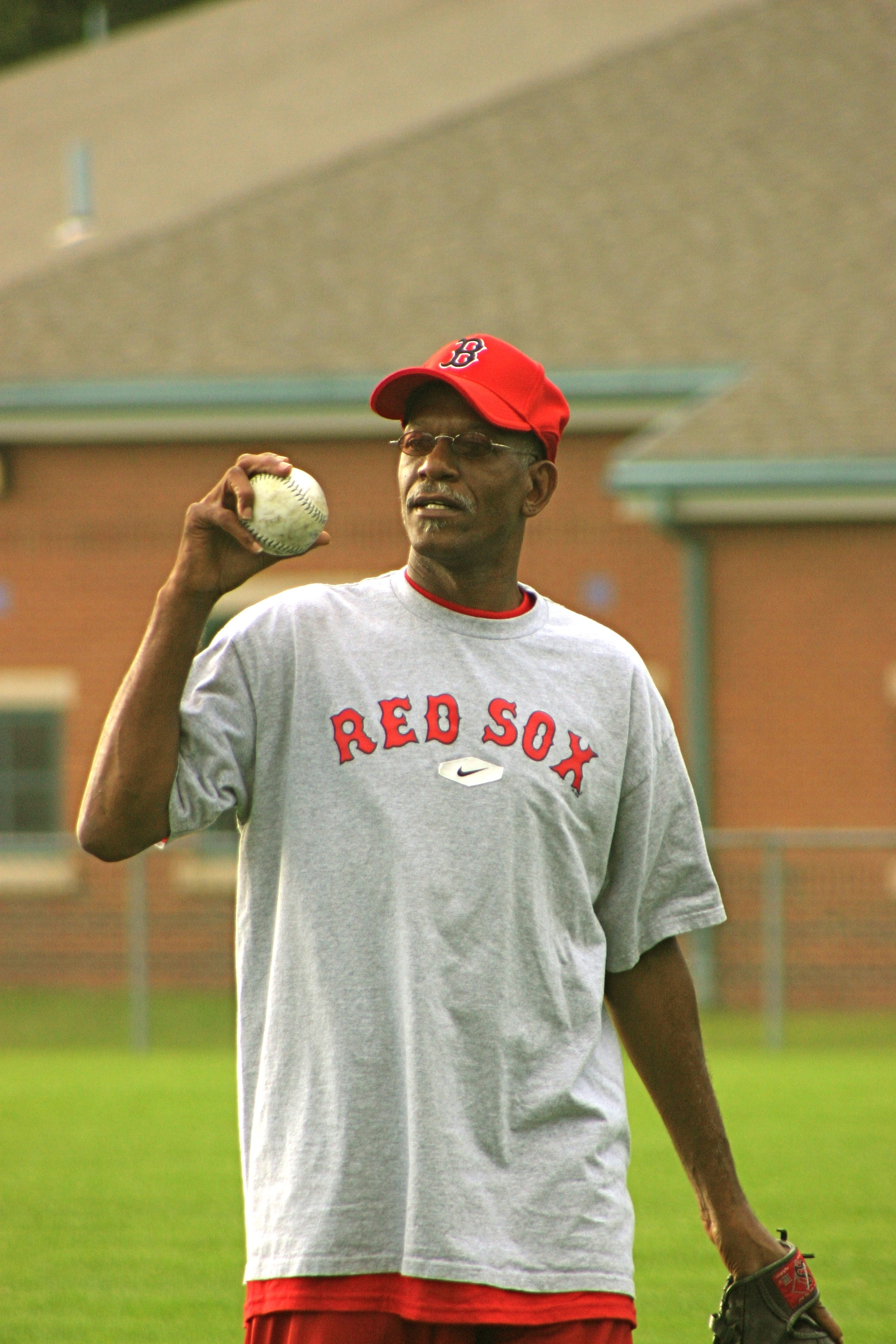 Photograher: Fred Harrington Taken: Holliston, MA; Aug.3 2008 02:59, 5 August 2008 . . PhreddieH3 . . 2,048×3,072 (1.73 MB)